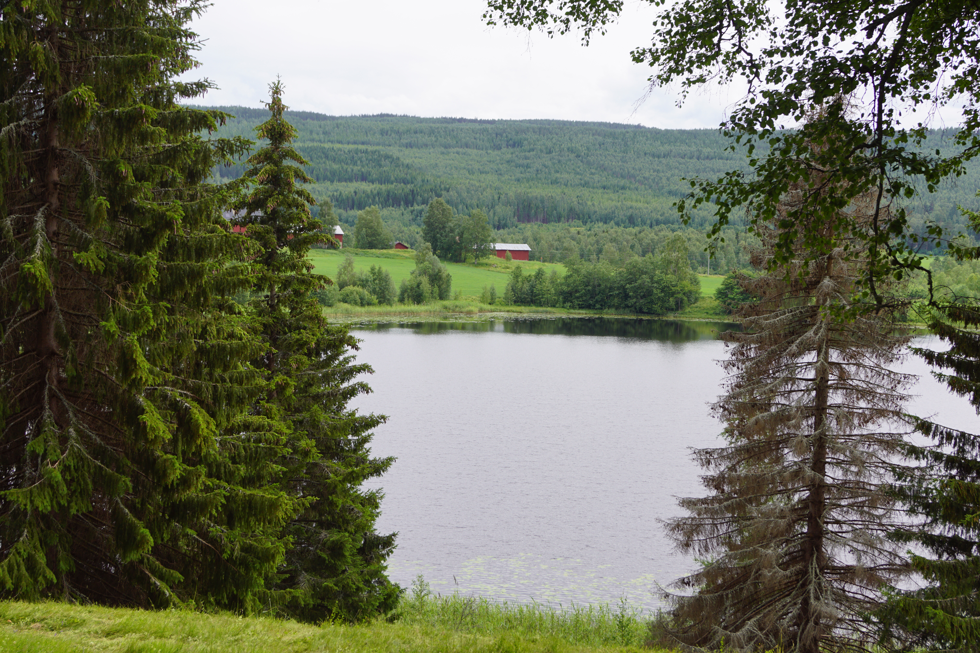 Västersjön, a lake near Växbo in Bollnäs Municipality, Sweden.